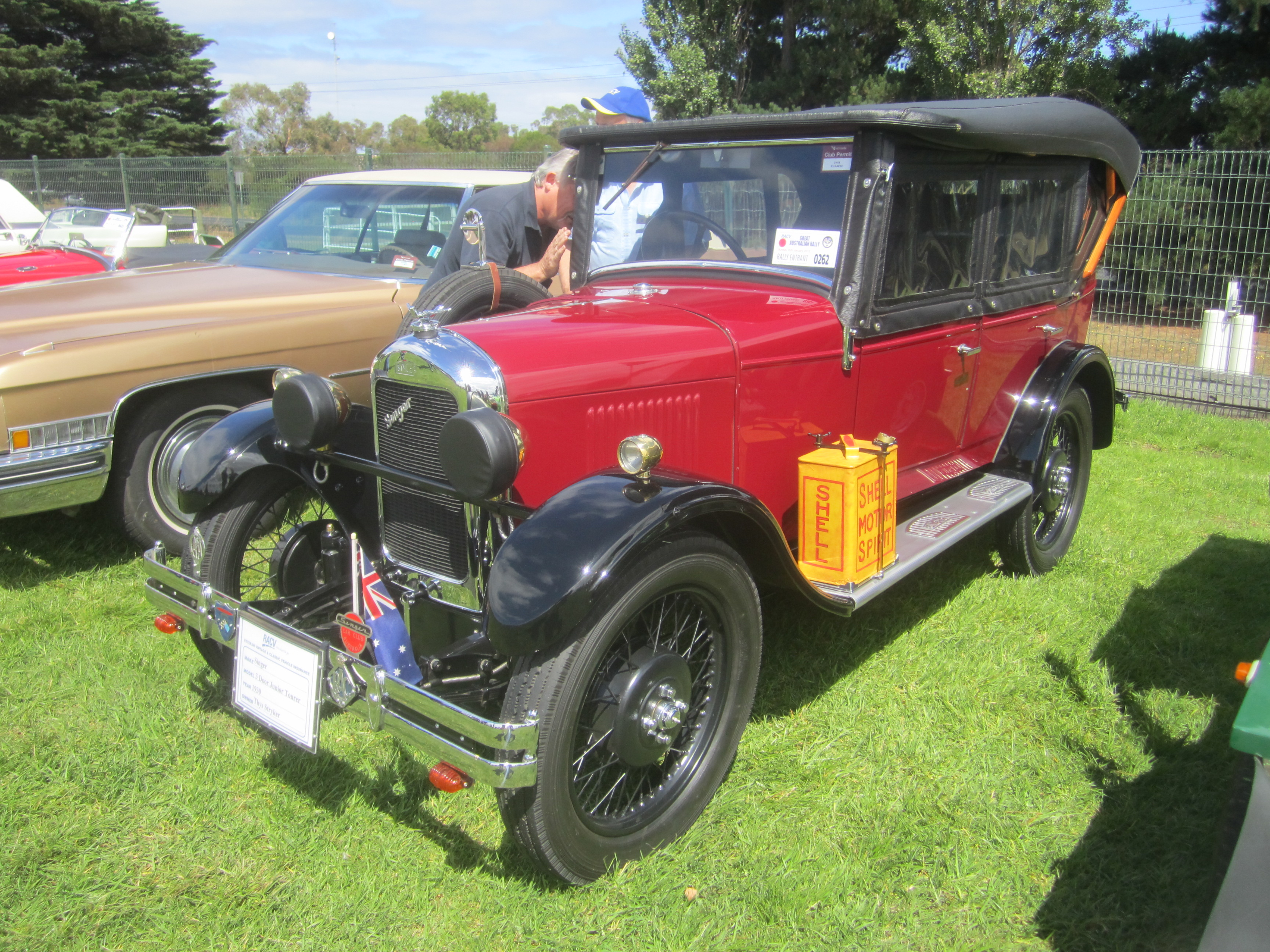 It wasn't until 1955 Singer was taken over by the Rootes Group. In 1926, Singer introduced the 848cc Singer Junior, it was initially only available as a three door, four seater Tourer painted blue with black wings. By 1929 it was soon offered in an other body styles, a 2 or 4 Seat Tourer, a Sunshine Saloon, a Coachbuilt Saloon, a Fabric Saloon, 2+2 called the Sportsman’s Coupe and a boat-tailed, wire wheeled Porlock Sports. Replaced in 1932 by the Singer 9.